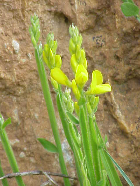 Species: Chamaespartium sagittale Family: Fabaceae Image No. 1